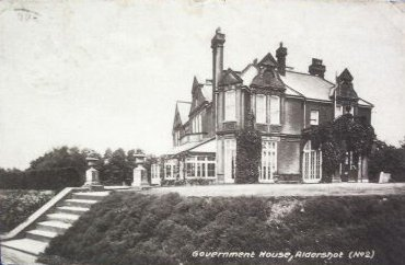 Government House, Aldershot, Old Print published in postcard form